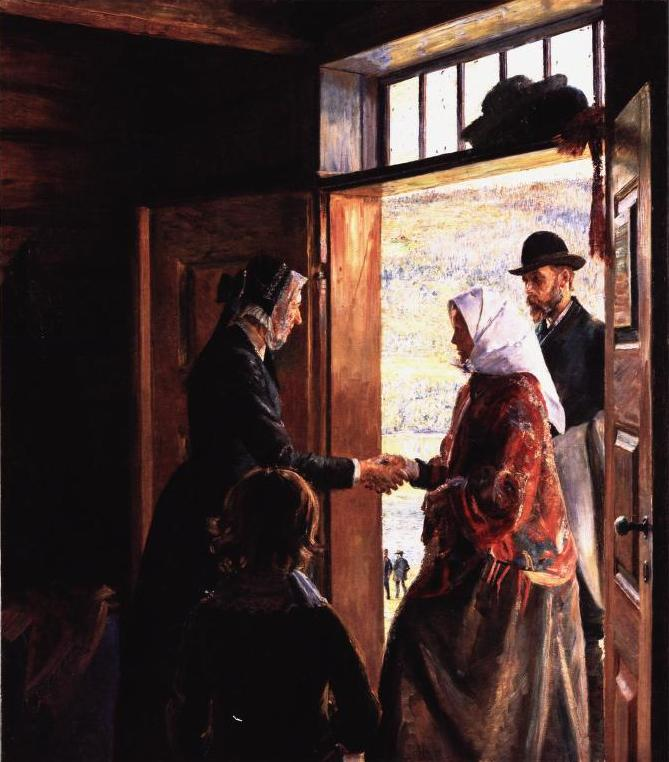 The painting Velkommen from 1890. Owned by the National Gallery (Norway).